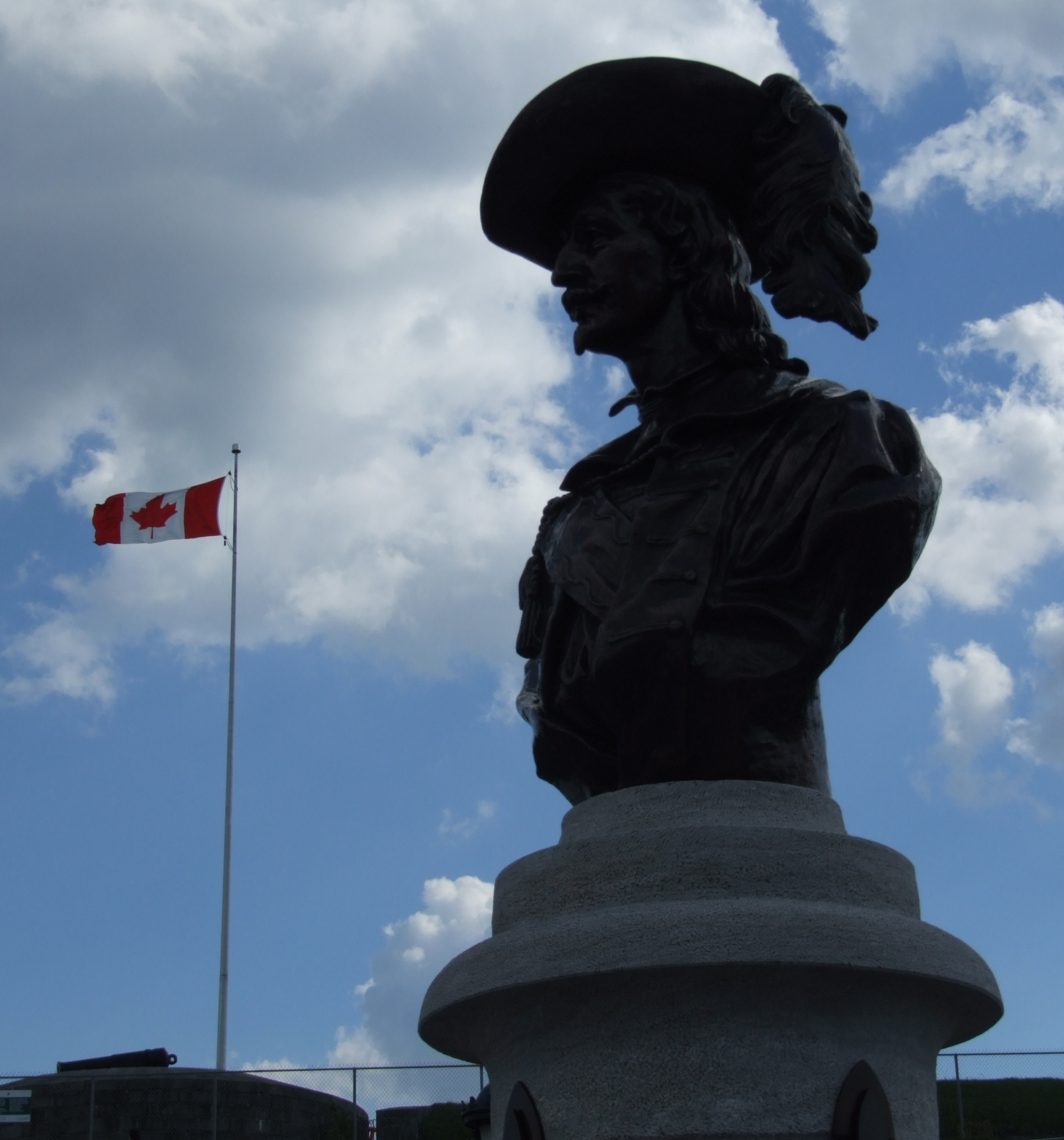 Bust representing Pierre Dugua de Mons, Québec, Quebec, Canada